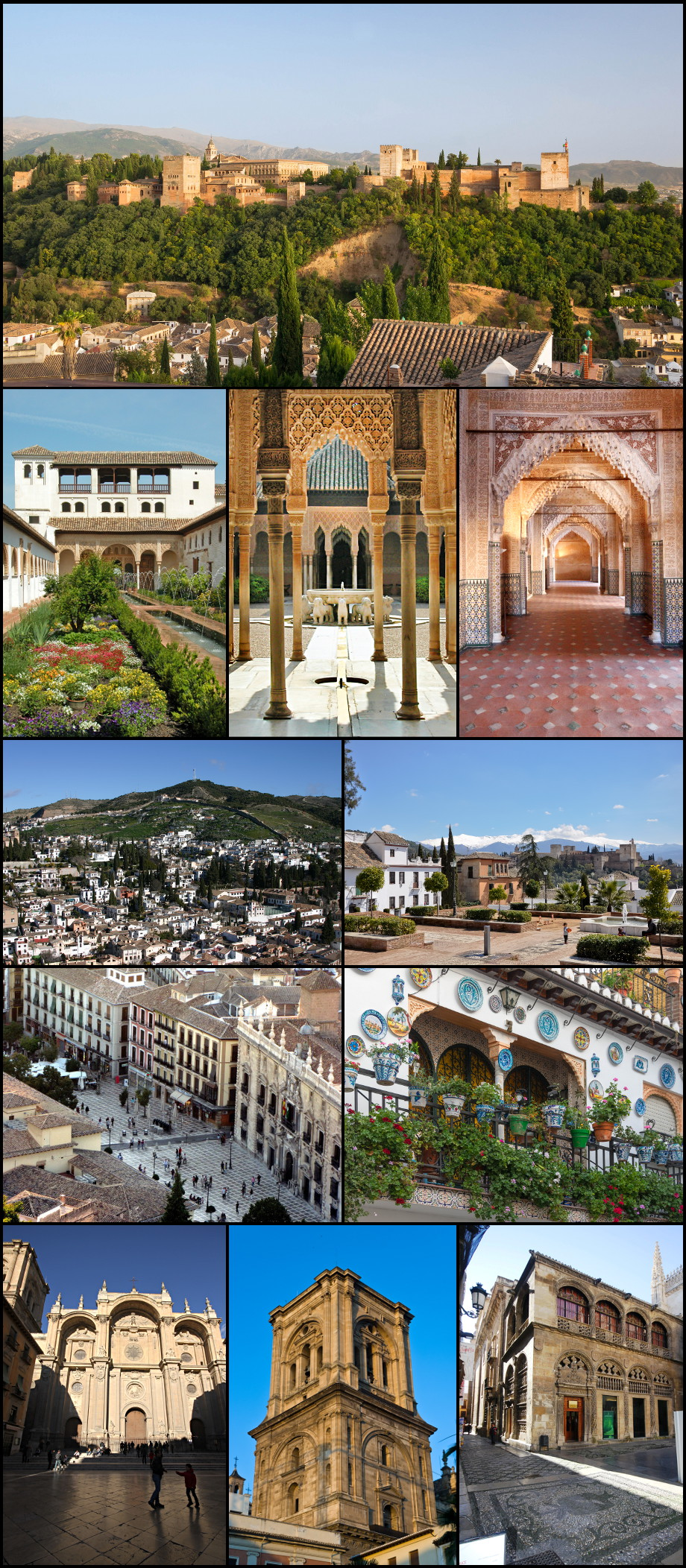 Collage of photos of Granada